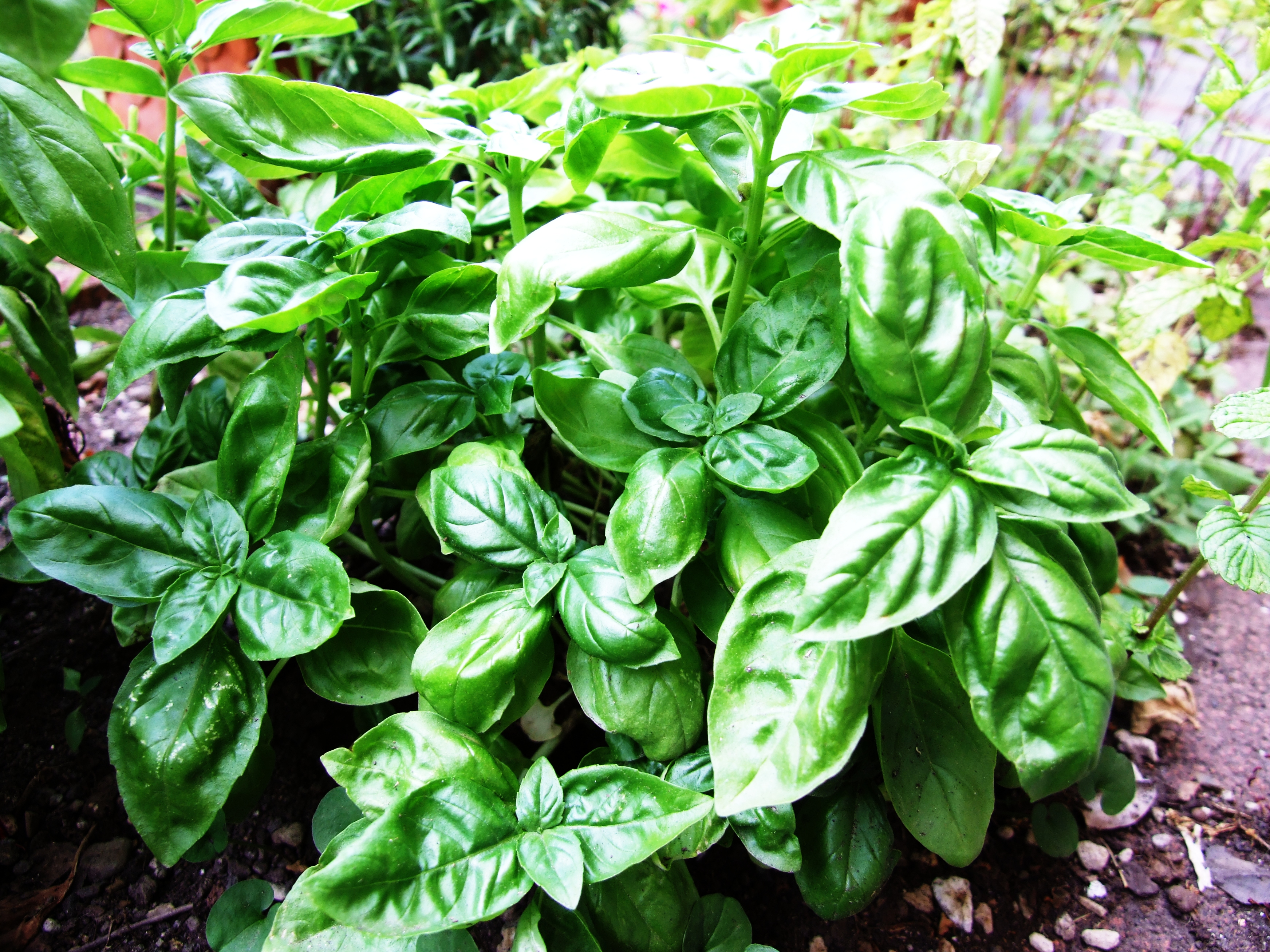 Basil Basilico Ocimum basilicum albahaca (Thai Basil)